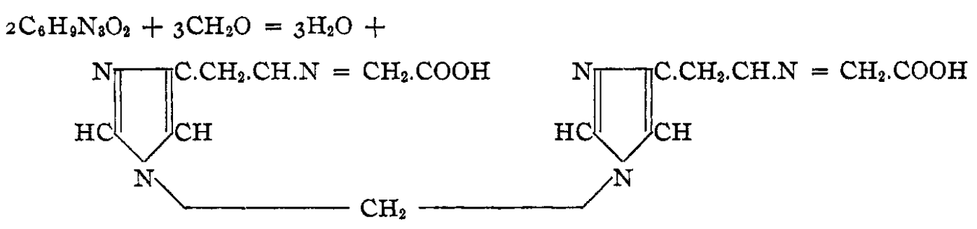 Formol titration equation for histidine